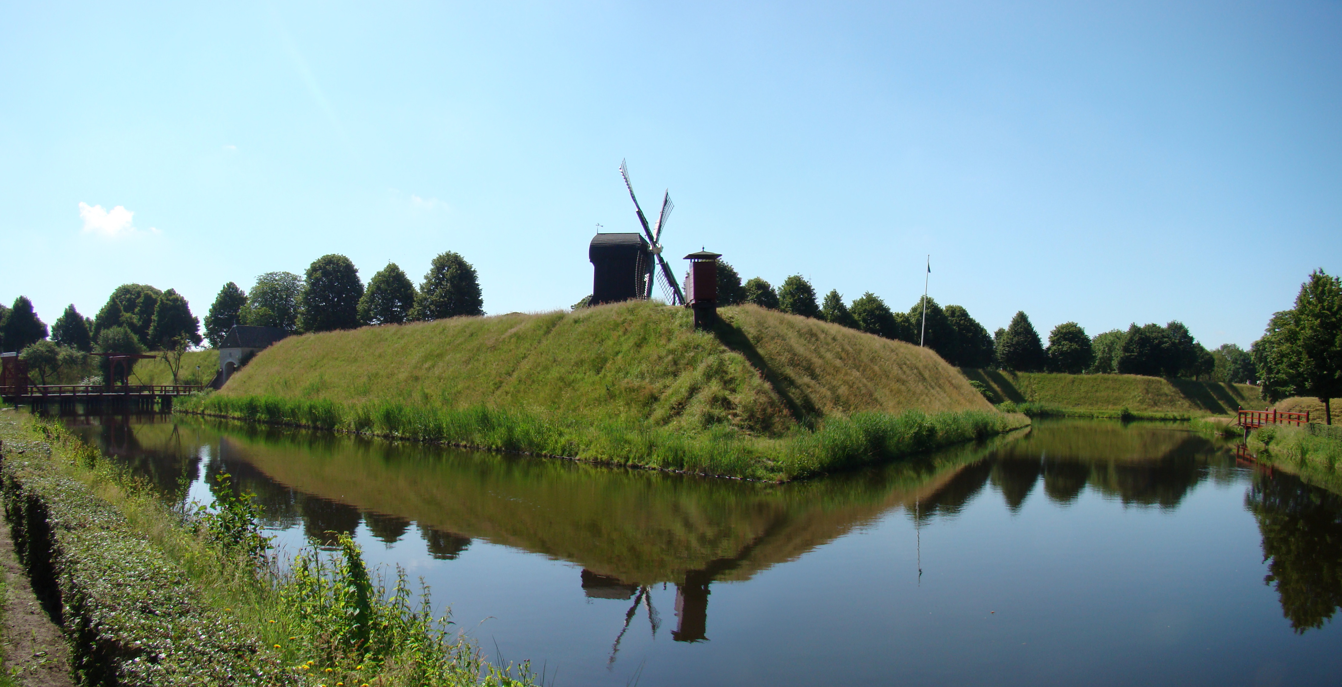 Impressions of Bourtange, Netherlands Bastion